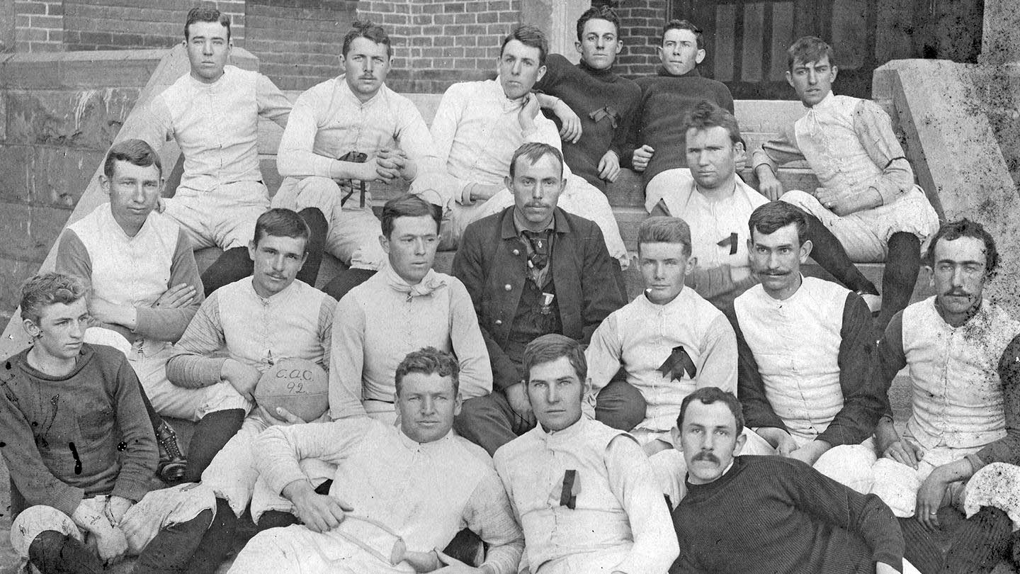 One of the first team (if not the very first) of Colorado State football.